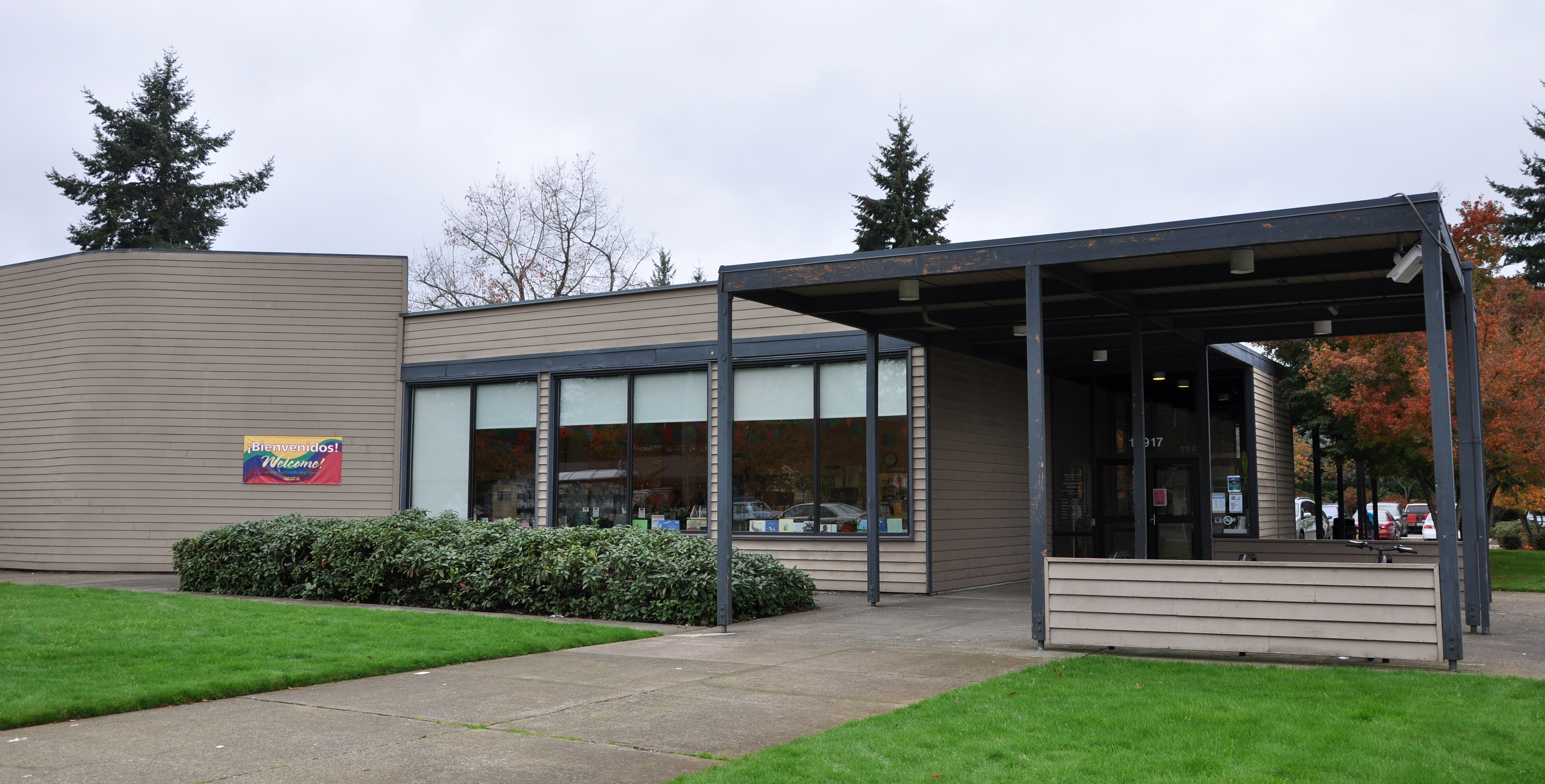 Rockwood Library, a branch of the Multnomah County Library in Portland in the U.S. state of Oregon.